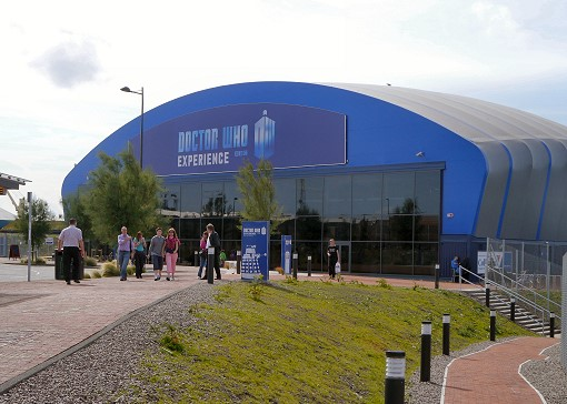 The Doctor Who Experience, Porth Teigr, Cardiff Bay